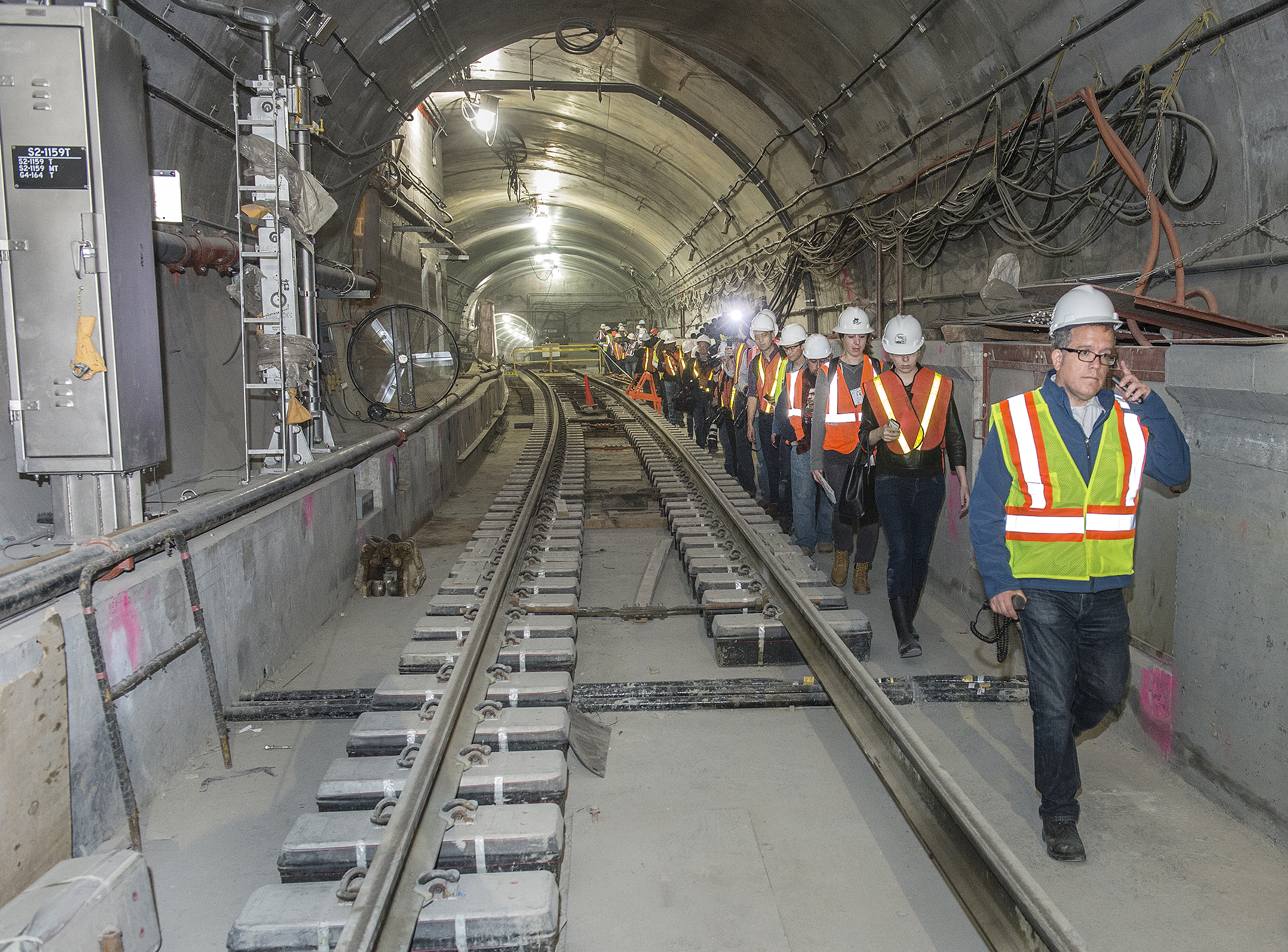 This photo was taken during a tour of the Second Avenue Subway for members of the news media on May 21, 2015. Photo: Metropolitan Transportation Authority / Patrick Cashin